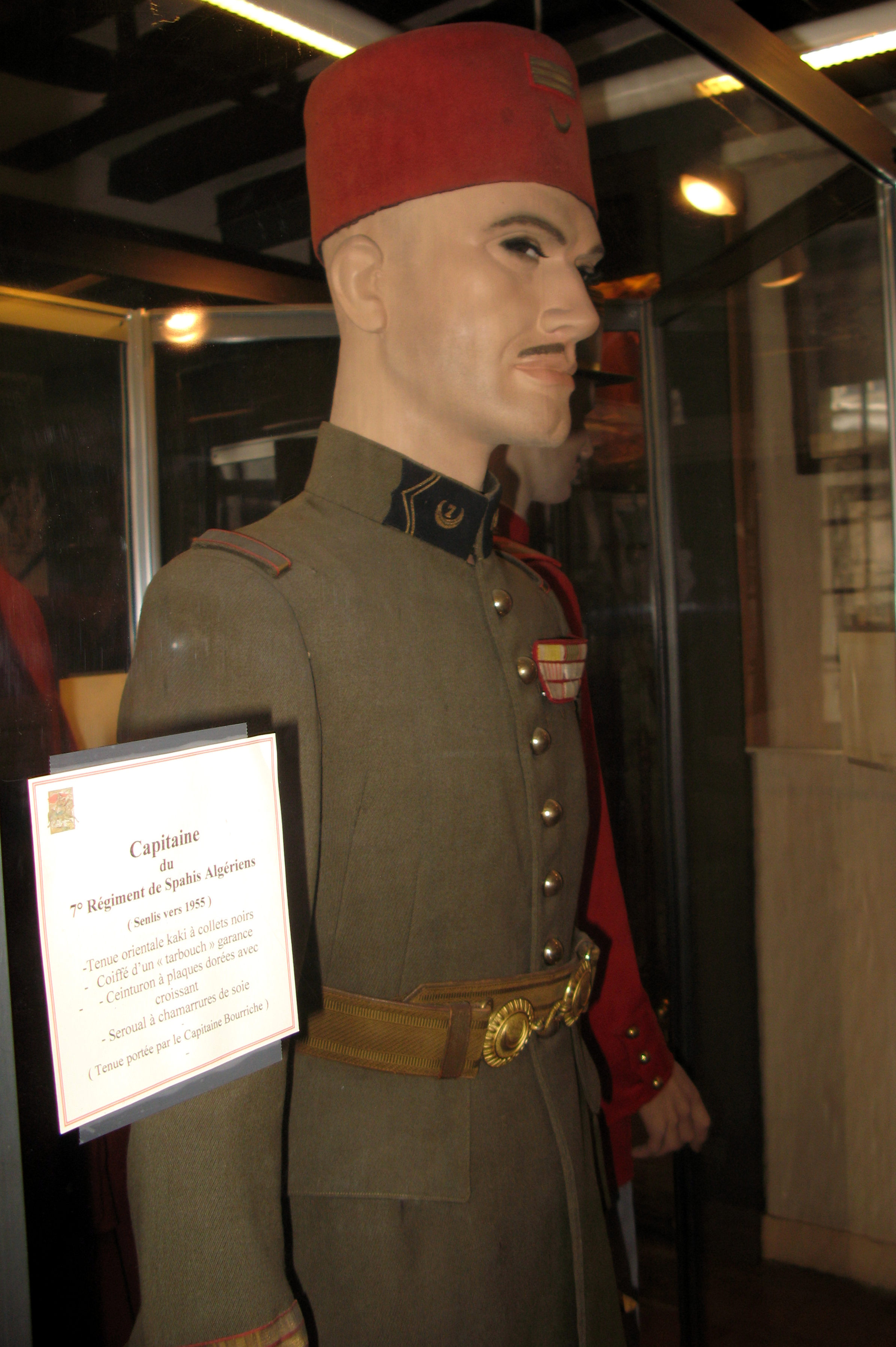 Uniform of a captain of the 7th Spahis regimentMusée des Spahis, Senlis